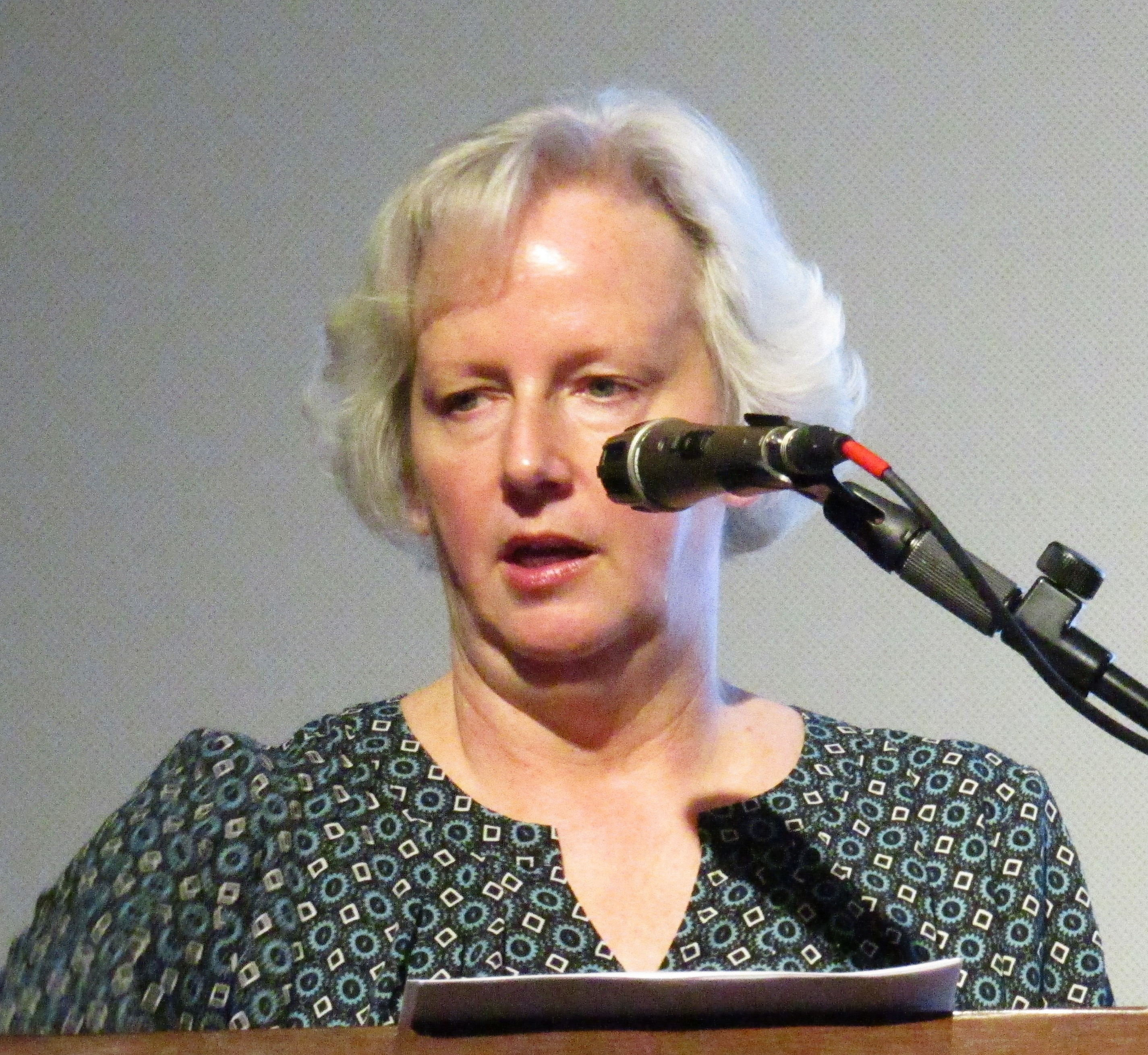 Renata Forste speaking at the Wheatley Institute's Reason for Hope conference.